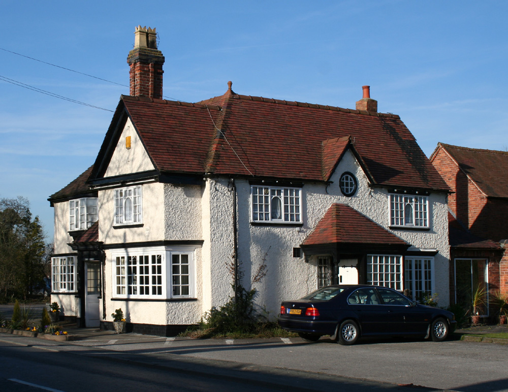 Royal Oak, Worleston, near Nantwich, Cheshire